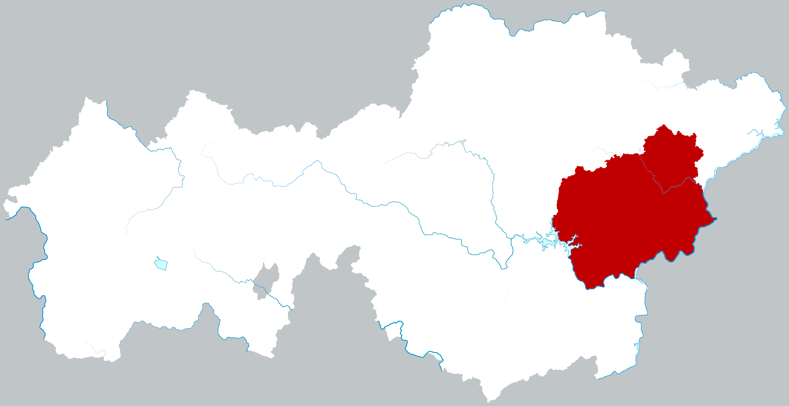 Location of Qianxi county in Bijie city, China